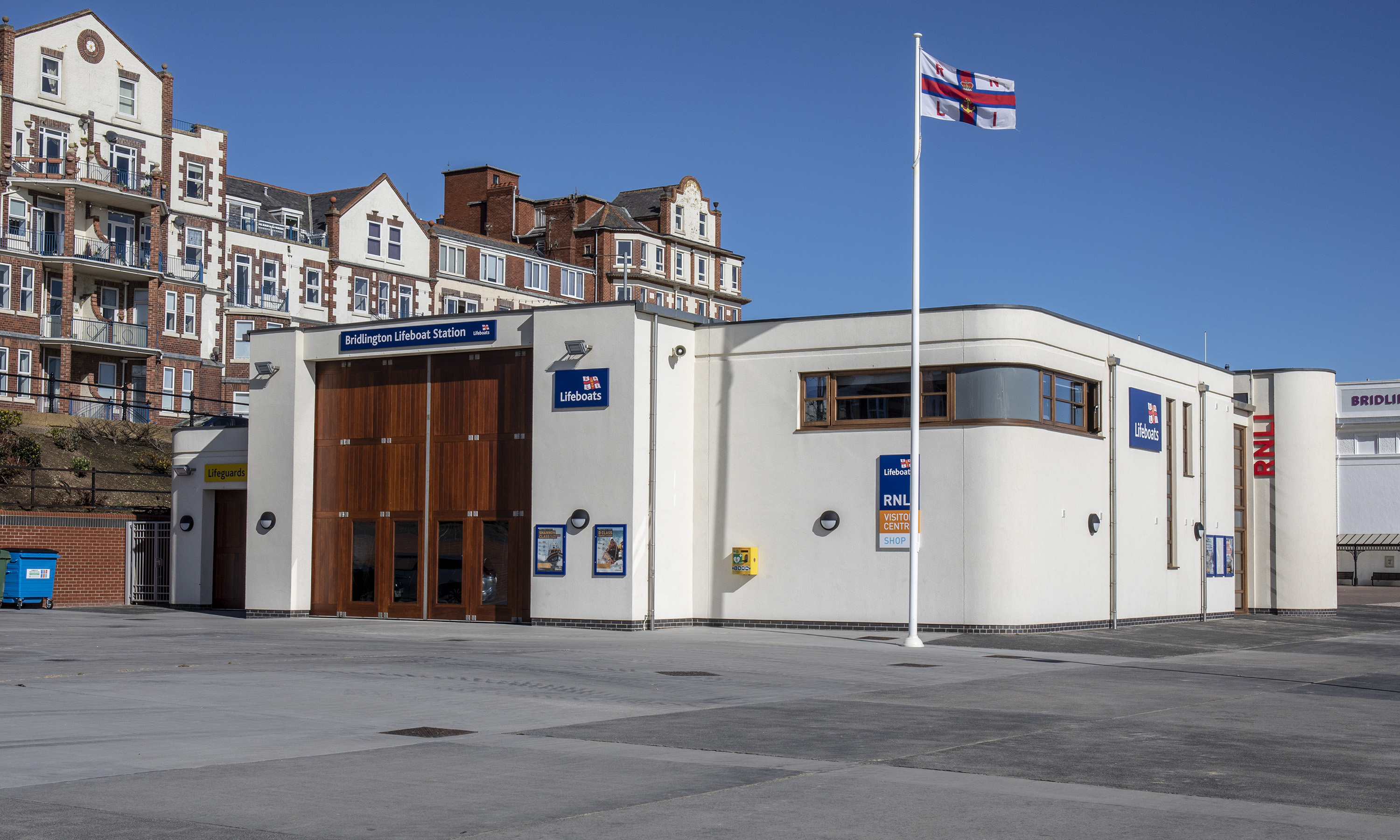 The Art-Deco style lifeboat building in Bridlington built in 2017